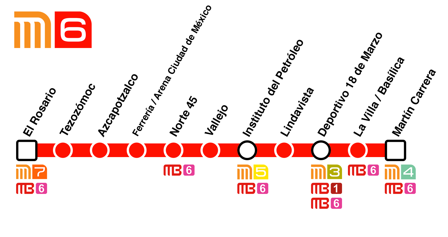 Mexico City Metro Line 6 plan, 2018